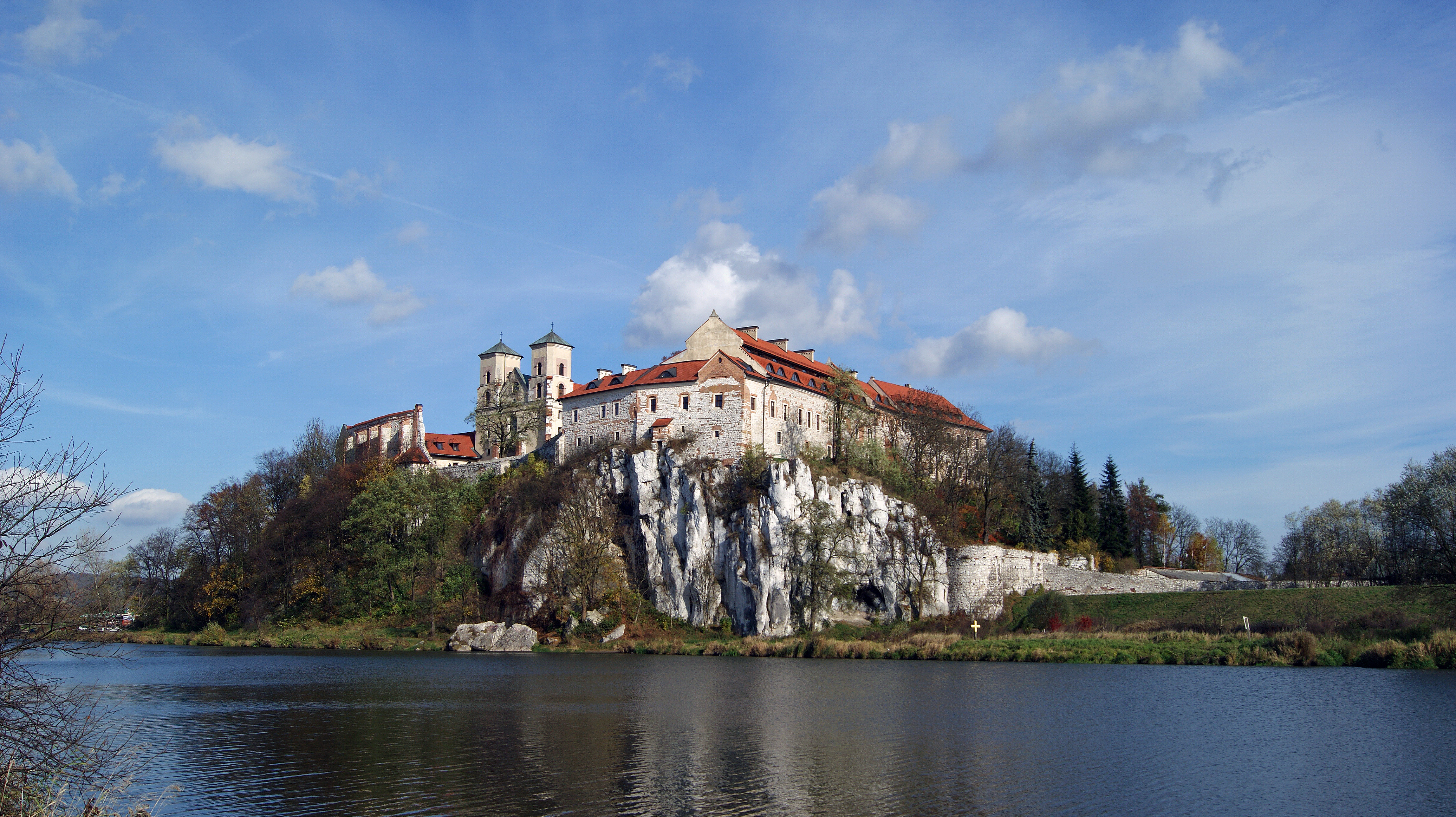 Church of St.Peter and St.Paul and Benedictine Monastery (Abbey in Tyniec),view from W, 37 Benedyktyńska str, Tyniec, Krakow, Poland